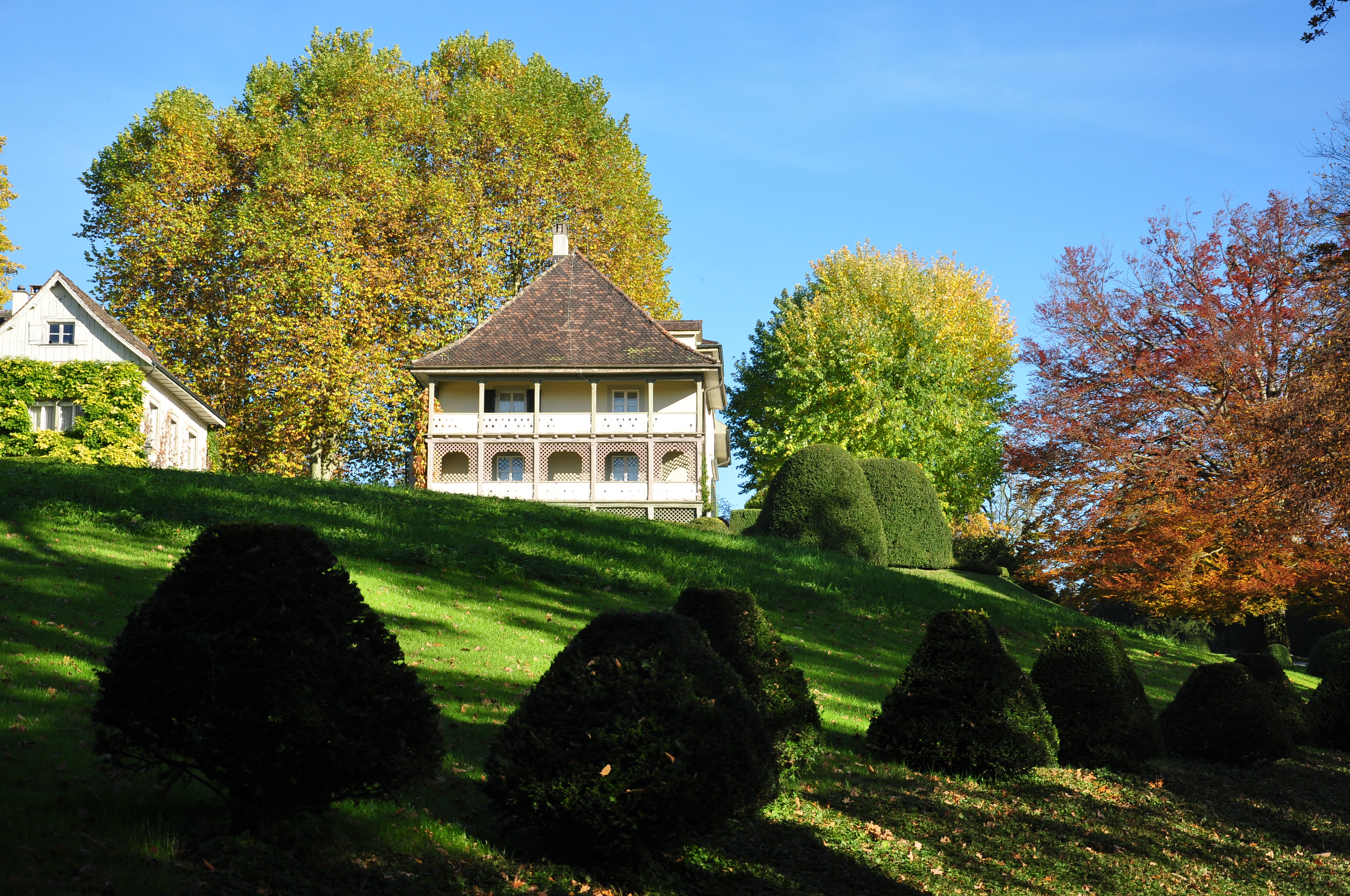 Meienberg nearby Rapperswil respectively Jona (Switzerland)